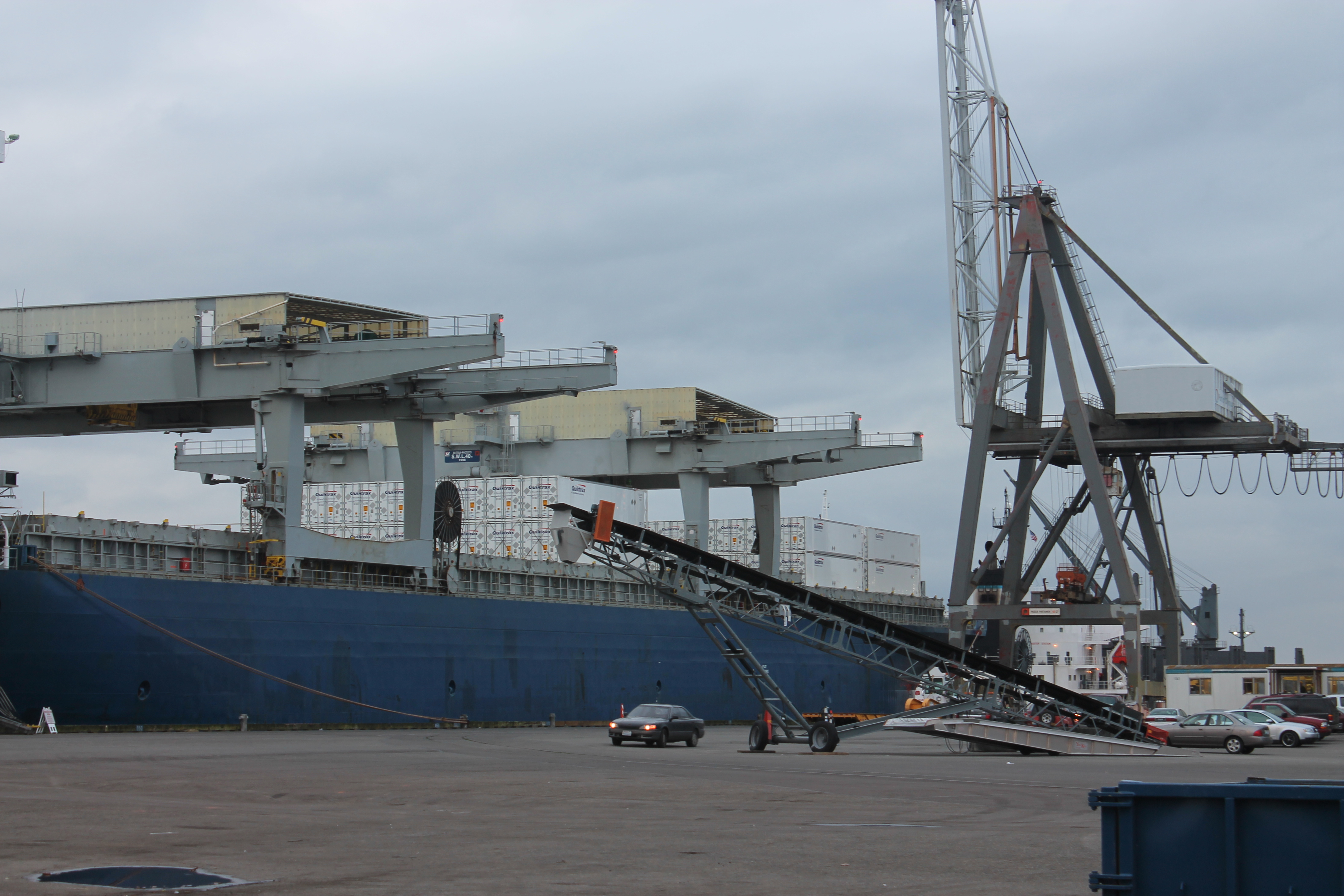 United States, Washington, Olympia, Port of Olympia. Star Harmonia reportedly delivering fracking supplies for use in natural gas extraction.